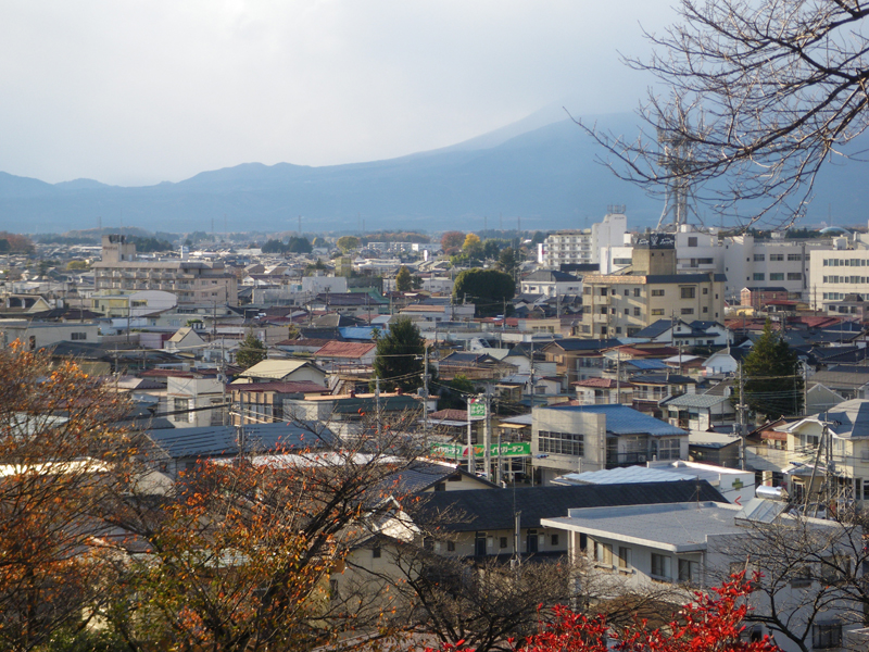 Ōtawara City, and Mount Takahara, view from Ōtawara Castle. Ōtawara, Tochigi, Japan.